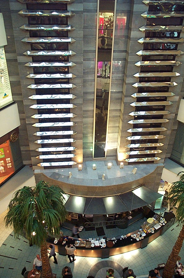 Interior view. Akmerkez in the upmarket Etiler district.